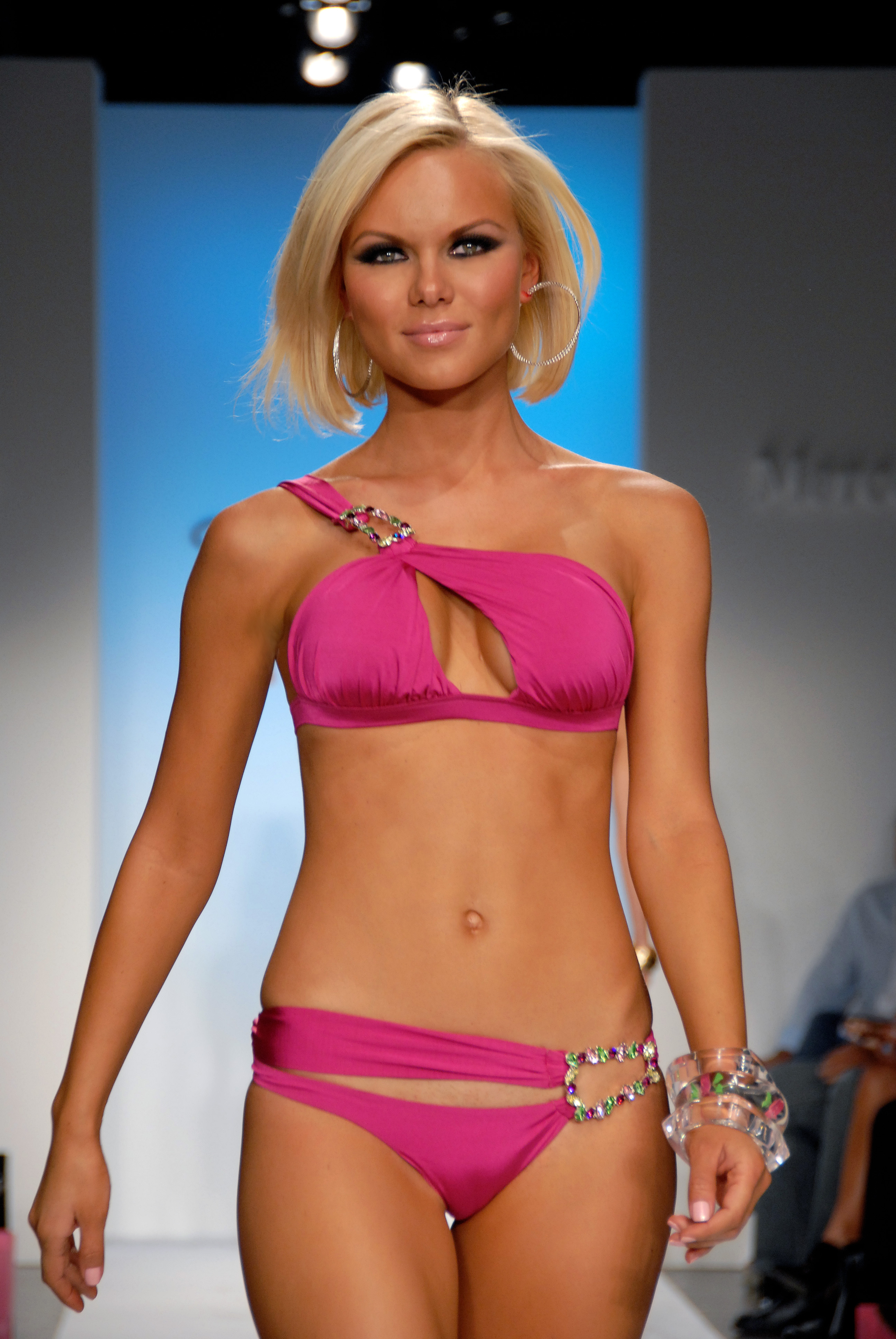 Anya Monzikova walking the runway for "Beach Bunny Swimwear" during Los Angeles Fashion Week, Oct.13, 2008 - Culver City, CA - Photo by Glenn Francis of